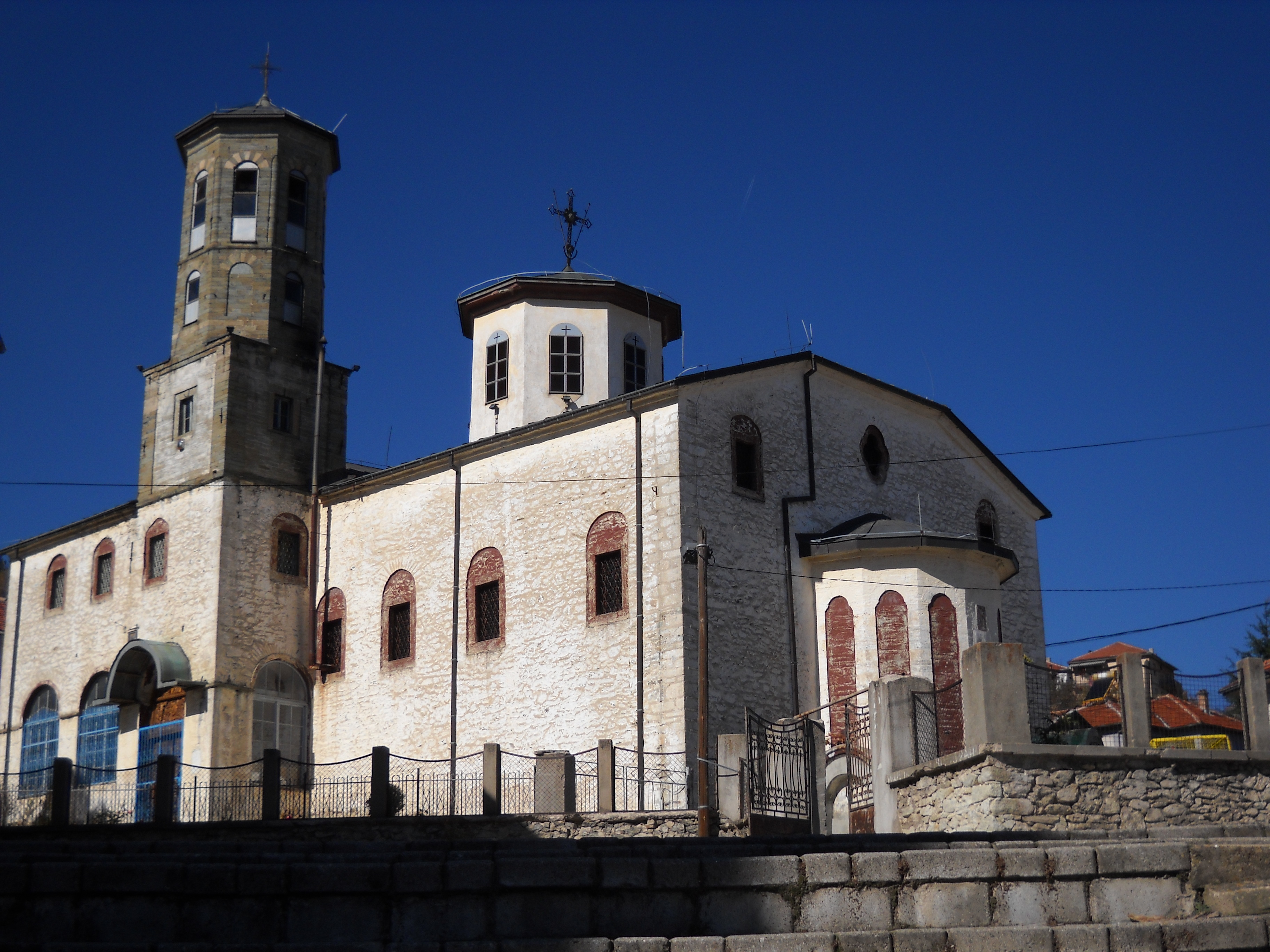 Holly Mother of God Church, Krusevo